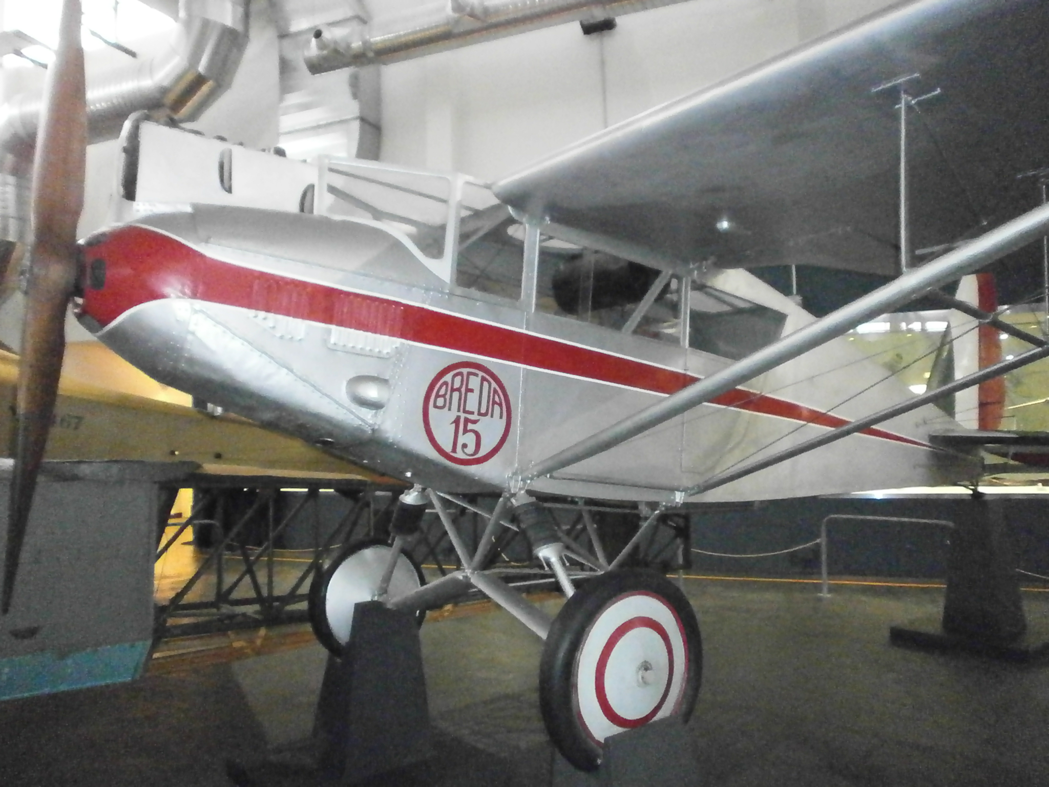 Breda Ba.15 - Museo della Scienza e della Tecnica - Milan